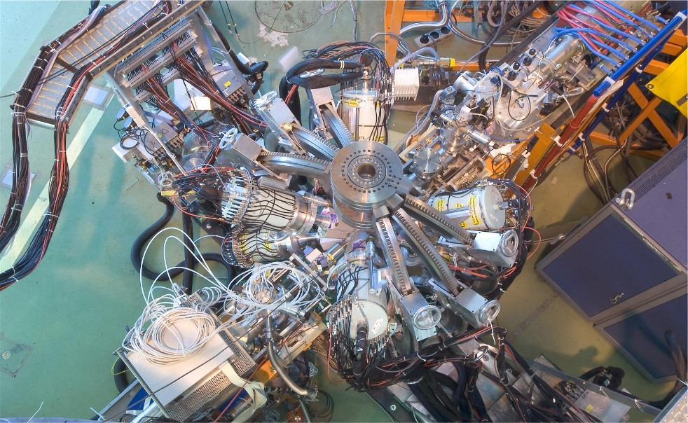 The MINIBALL HPGe gamma-ray array (seeing from above), comprising eight large HPGe cluster detectors, at the ISOLDE facility.